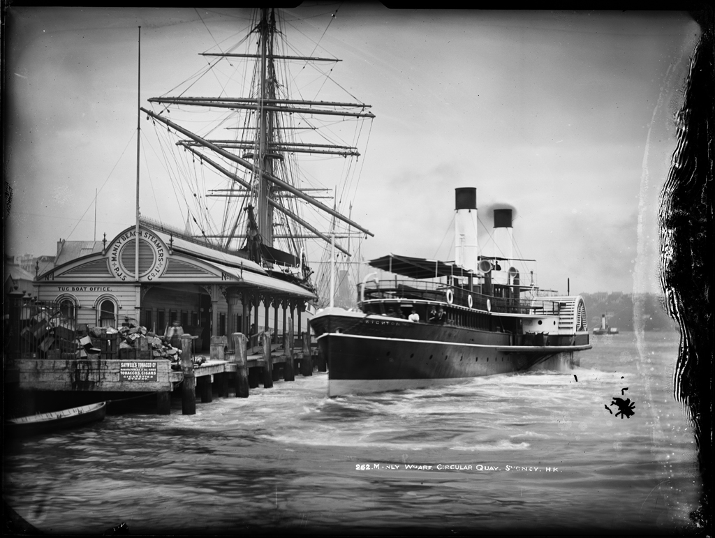 a collection of historical pictures in the Public Domain from the Powerhouse Museum. This file was posted to Flickr by The Powerhouse Museum (See the archive of their website for further information). Many thanks to the Powerhouse Museum for helping release this wonderful material. This tag does not indicate the copyright status of the attached work. A normal copyright tag is still required. See Commons:Licensing for more information.